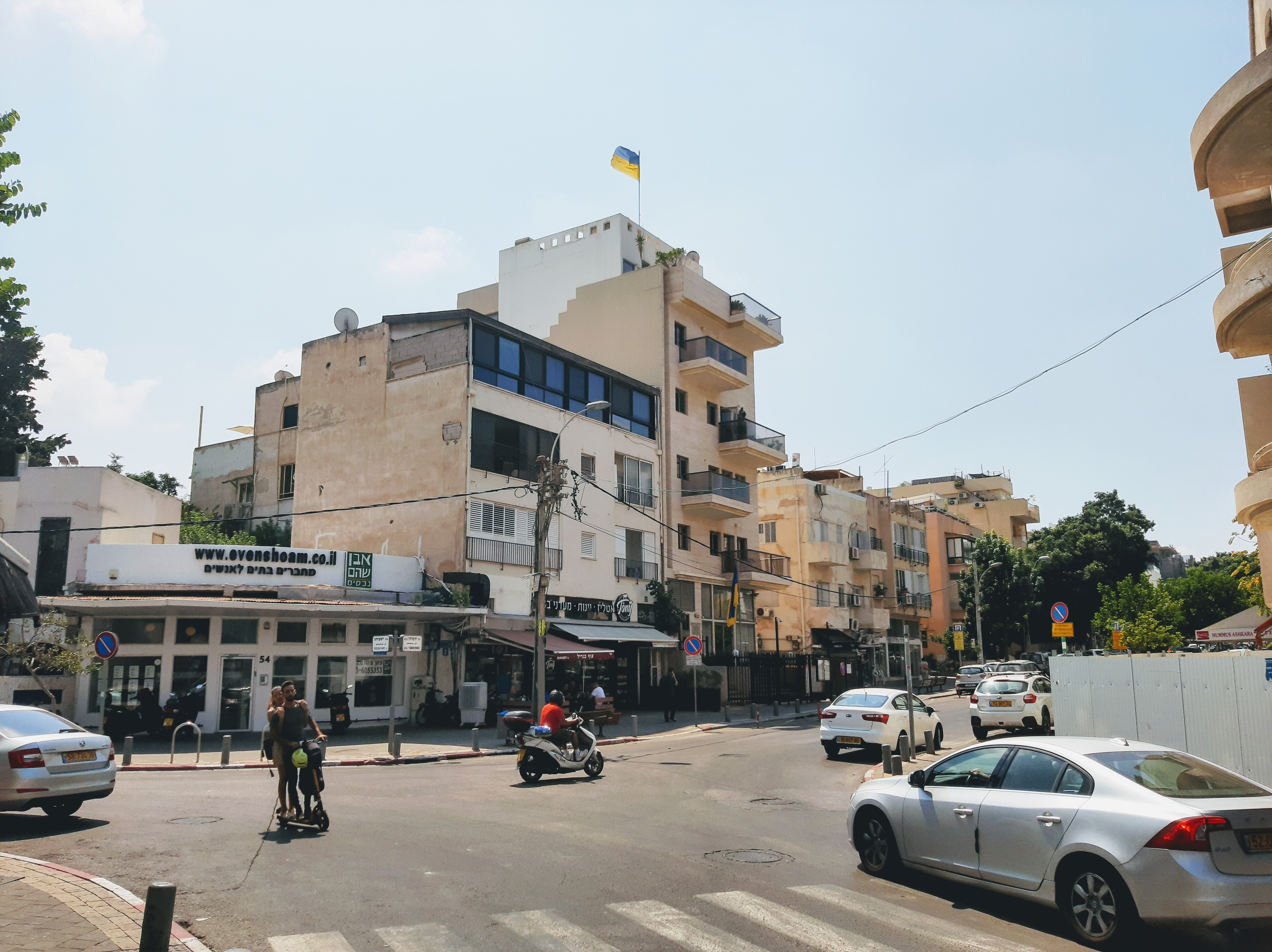 Ukrainian embassy in Tel Aviv